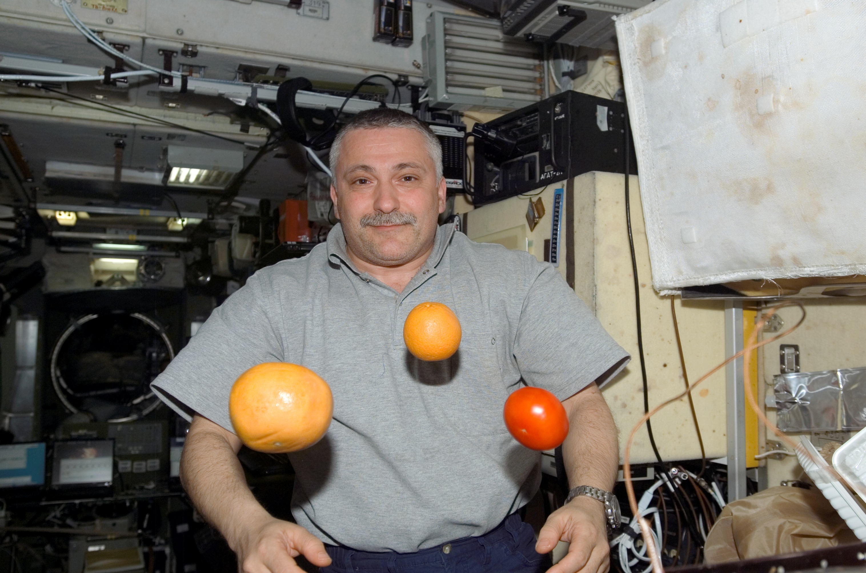 Cosmonaut Fyodor Yurchikhin, Expedition 15 commander, is pictured near "fresh" fruit floating freely in the Zvezda Service Module of the International Space Station. The fruit was part of a recent delivery of food and supplies sent up via a Progress resupply craft.